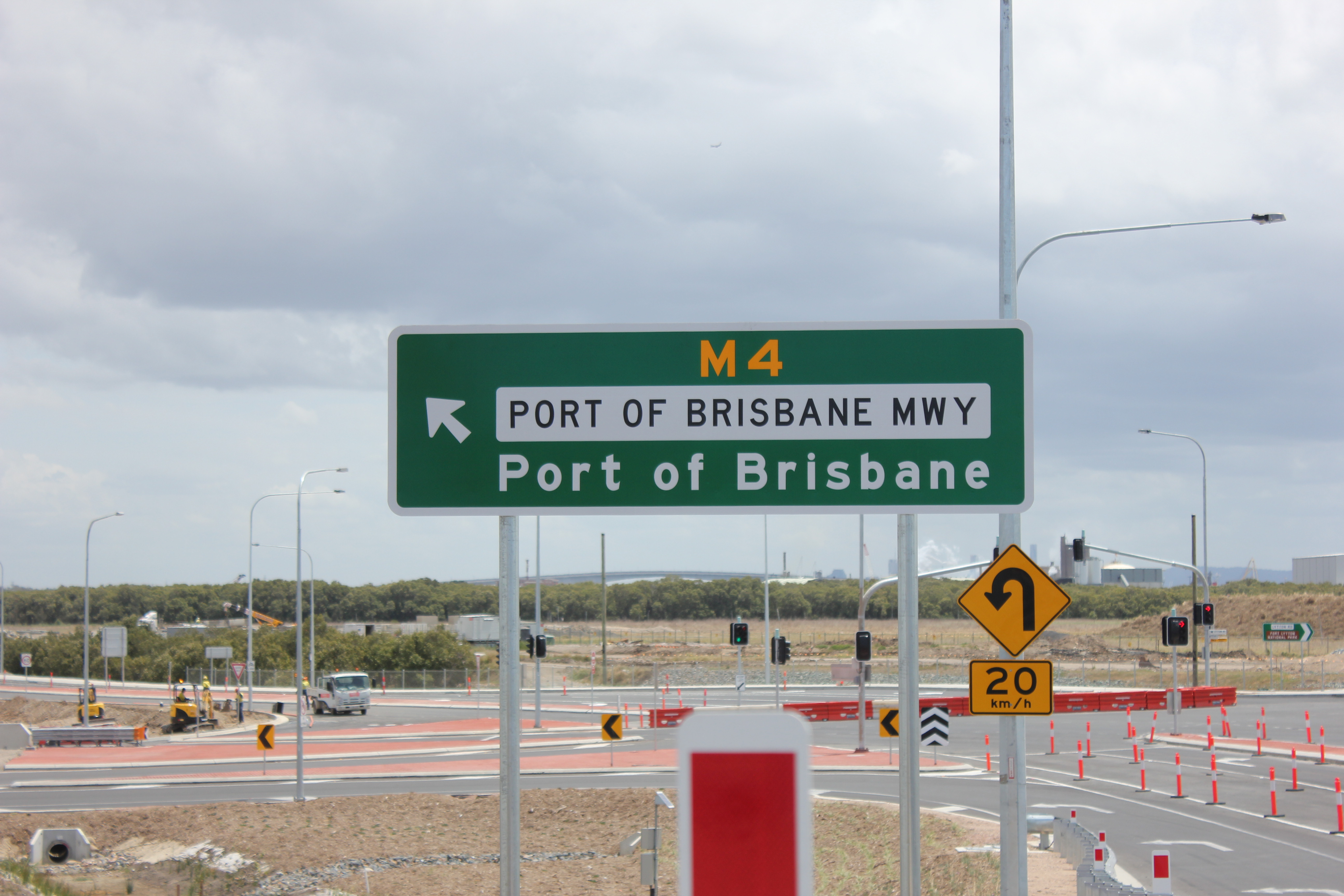 Port of Brisbane Motorway sign (11/3/12), Queensland, Australia